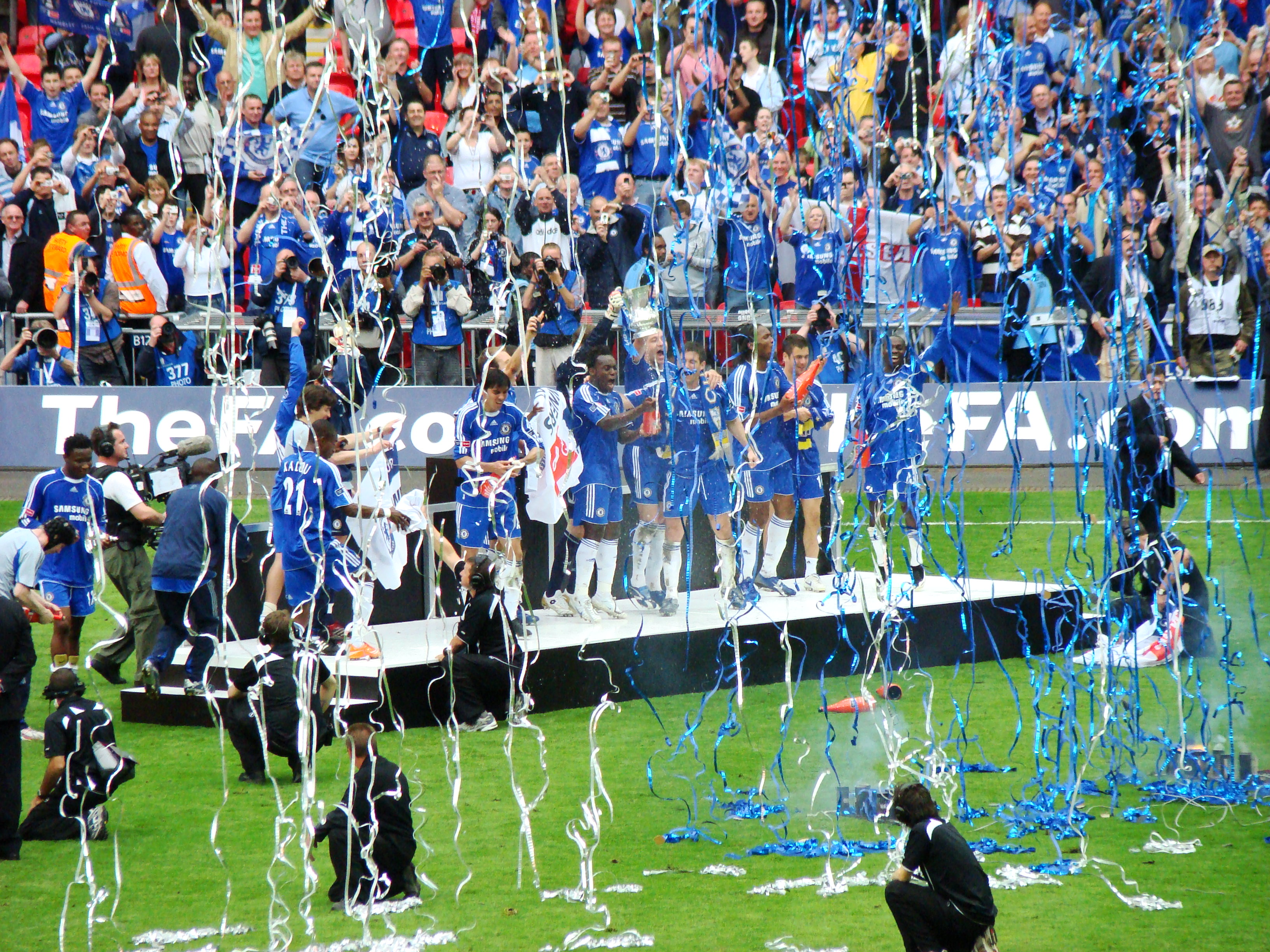 Trophy presentation after winning the 06-07 FA Cup.